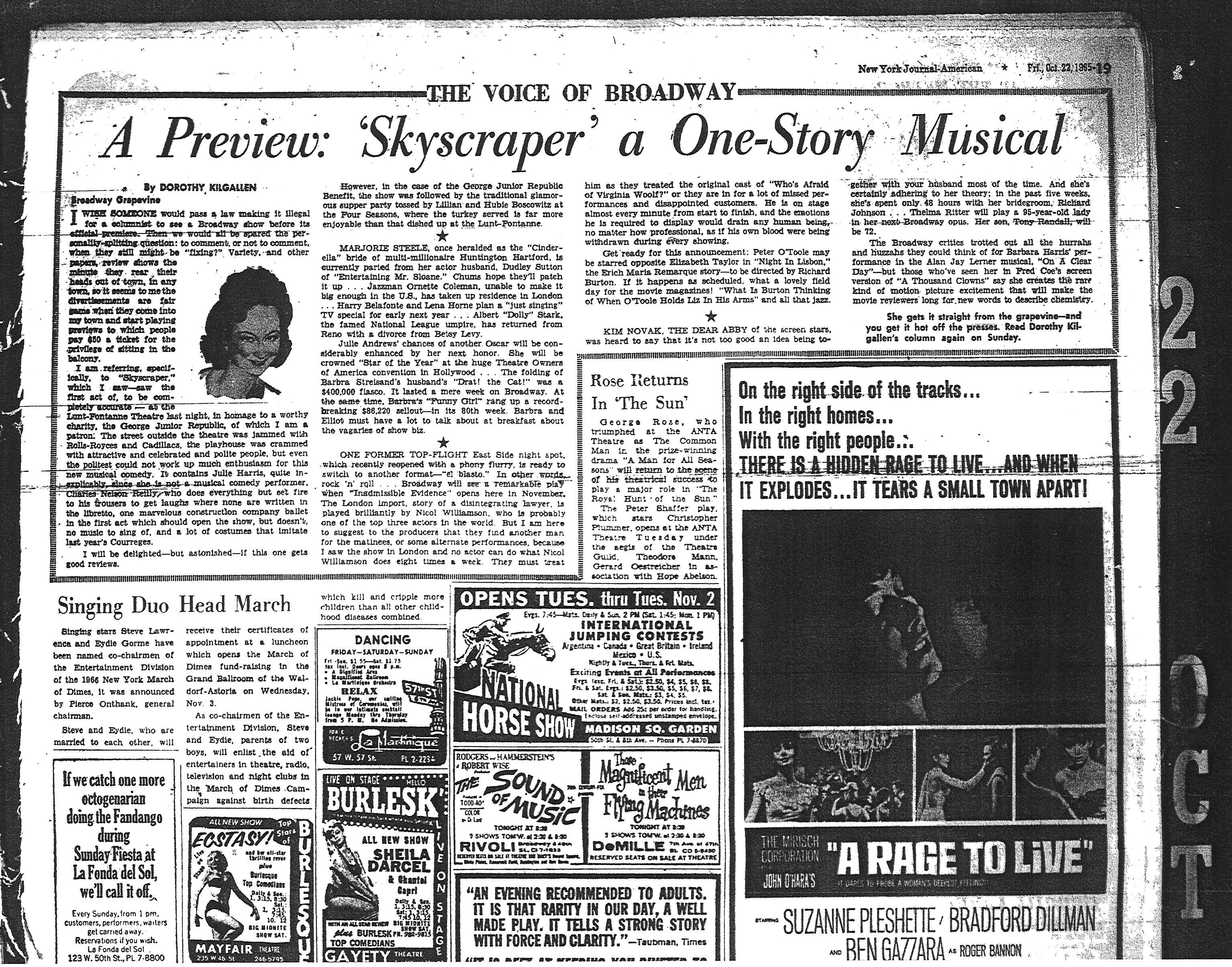 Copyright of this newspaper expired. It ceased publication in 1966.